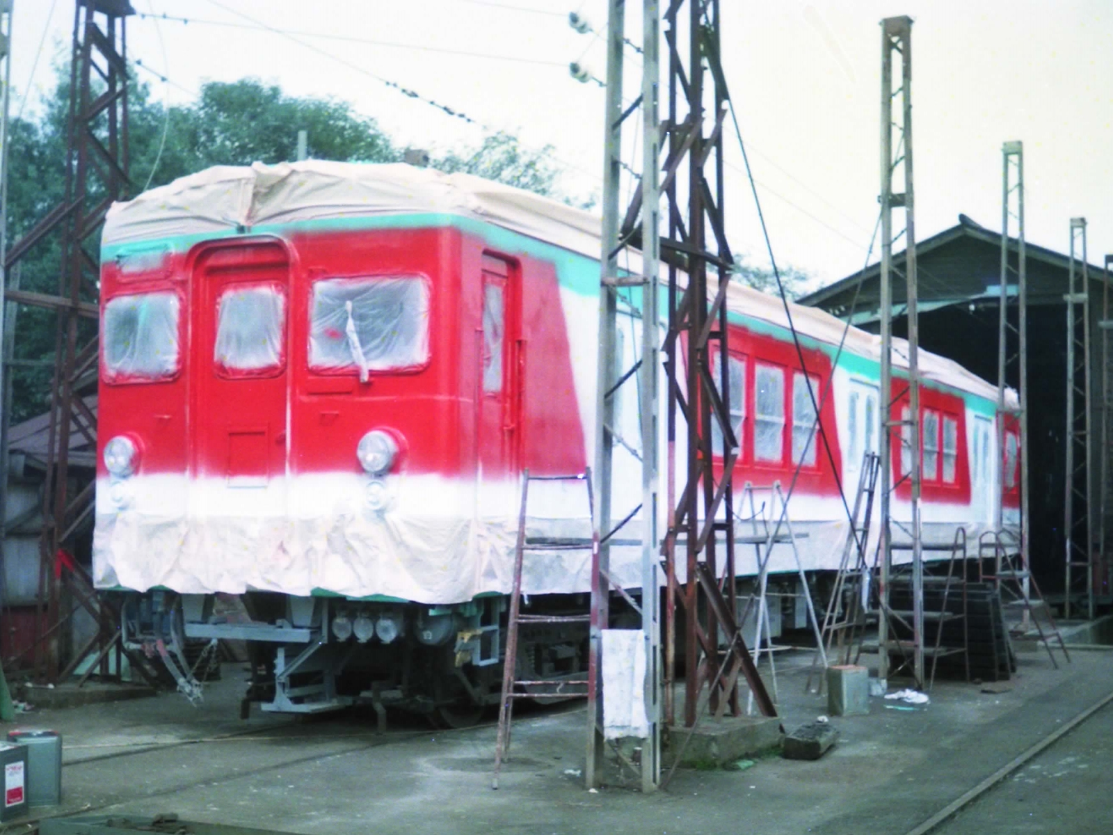 A former Tobu 3000 series EMU car being repainted to become a Jomo Dentetsu 300 series EMU